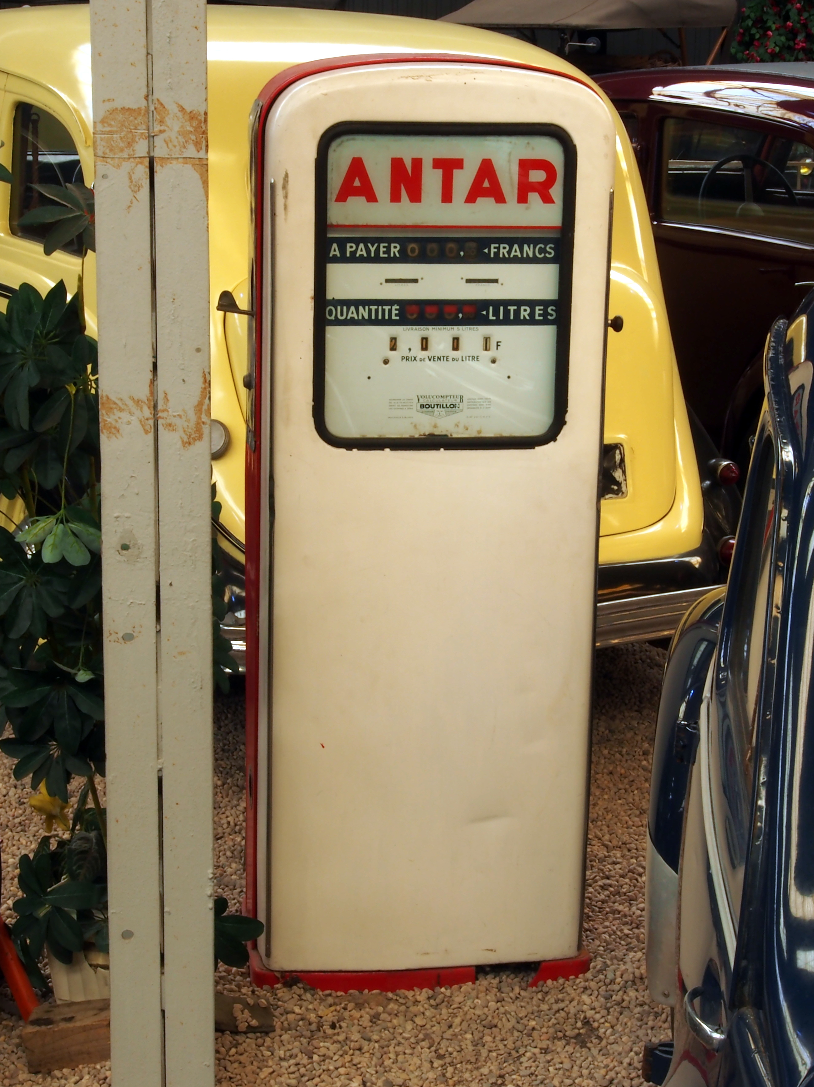 Antar, French petrol pump.